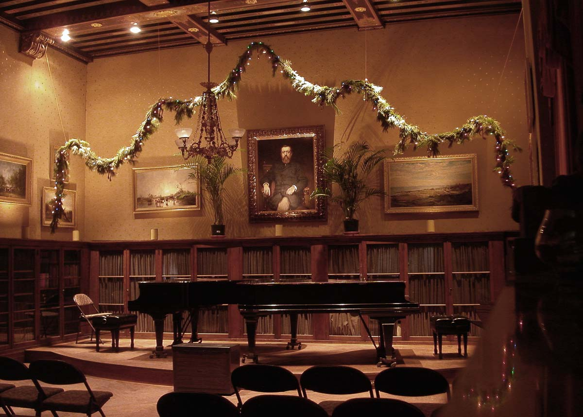 The Harvard Musical Association's Julia Marsh room, December 2003. Note that despite the title, this is not a picture of the centennial celebration.